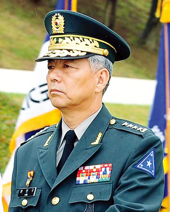 General Han Min-goo, Republic of Korea Army 中文（台灣）: 大韓民國陸軍上將韓民求